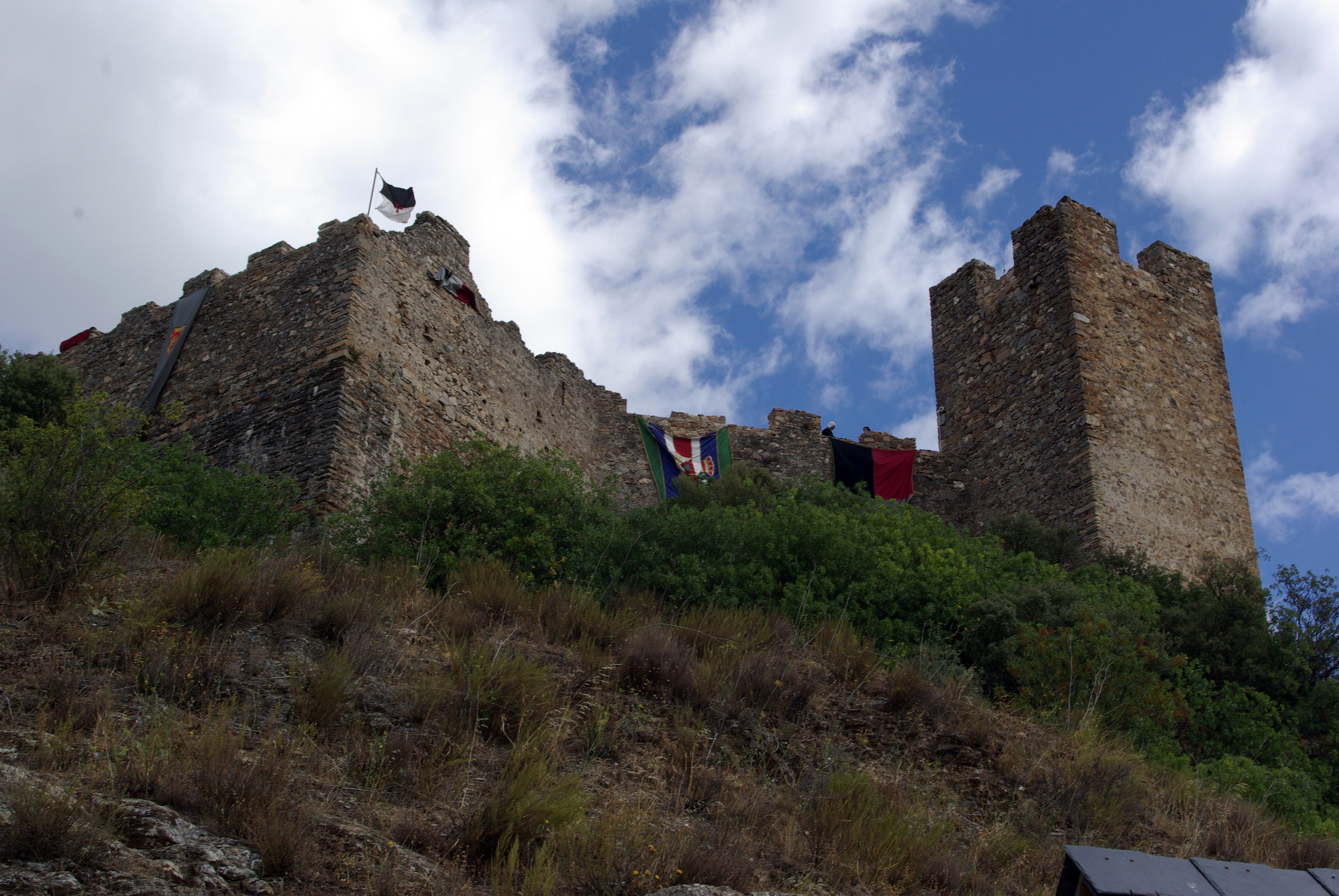 Castle of Cornatel, Priaranza del Bierzo (León, Spain)